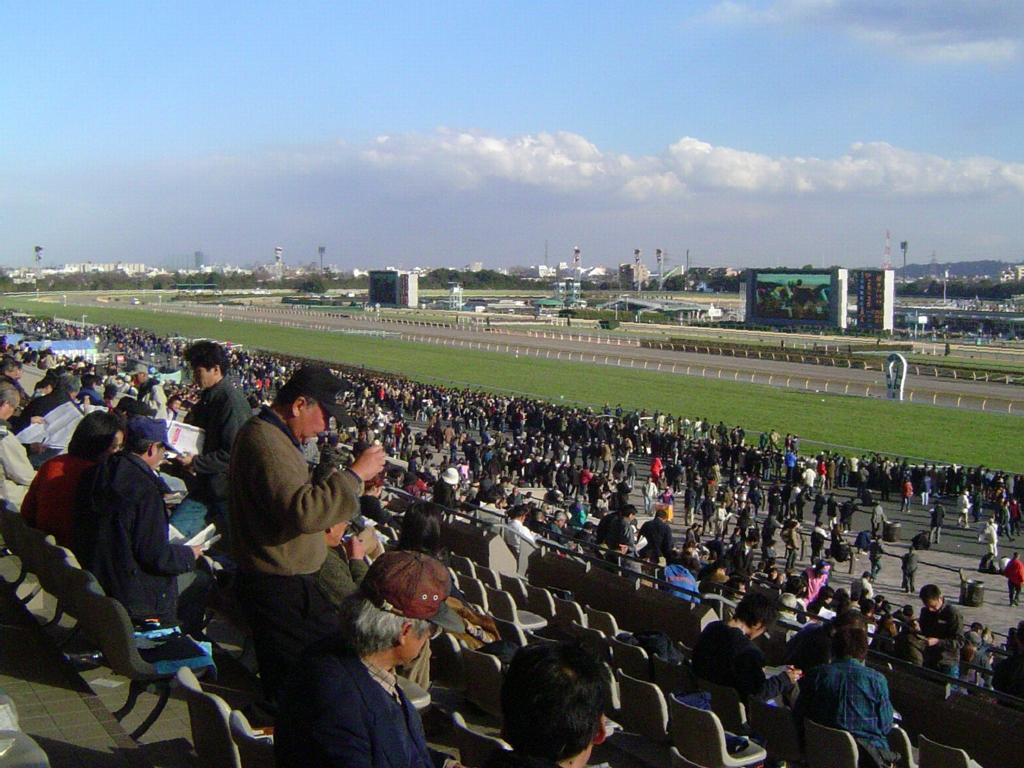 Tokyo Racecourse in Fuchu, western Tokyo, Japan